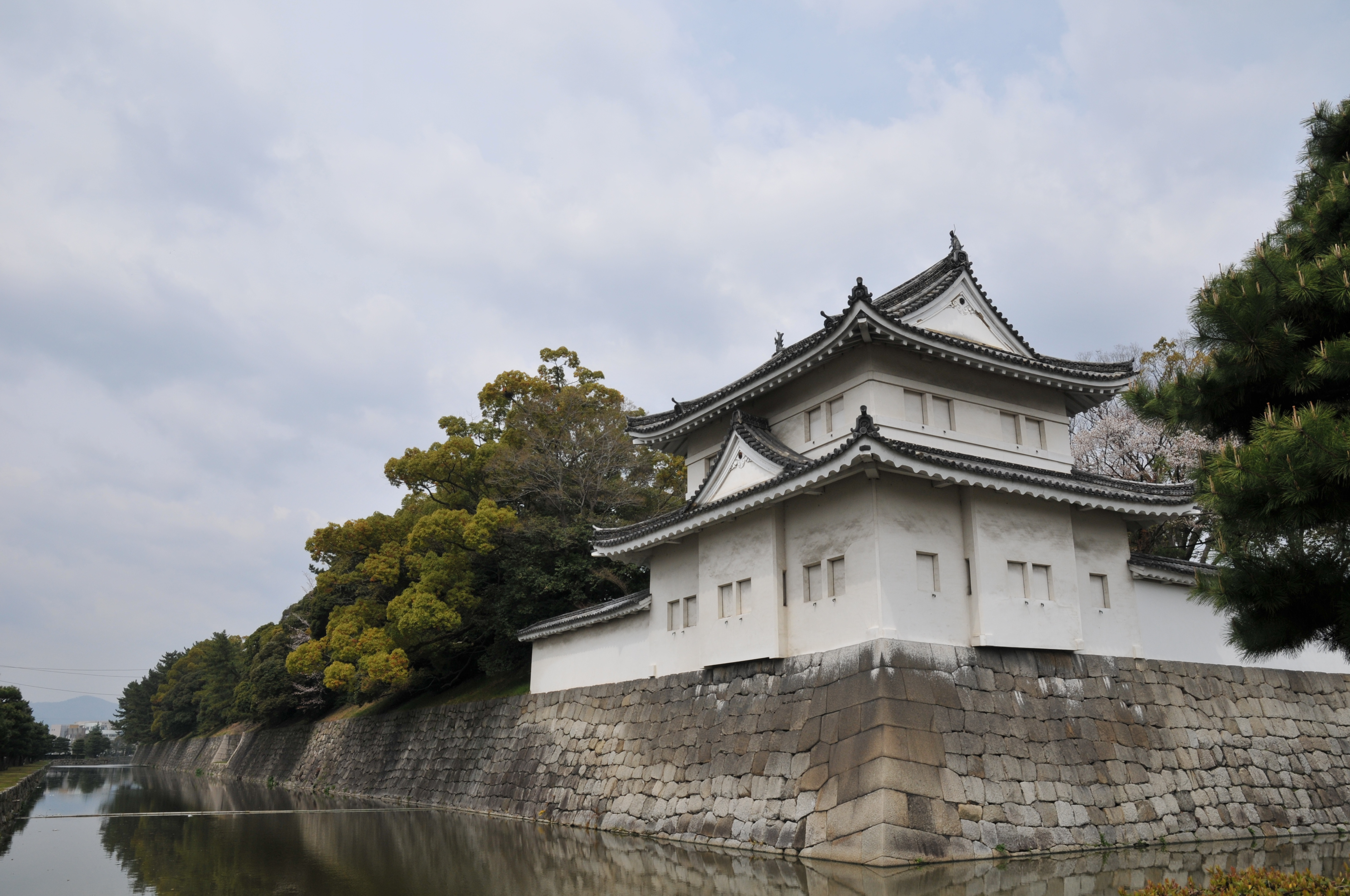 Tōnan-sumiyagura (lit:South-east corner turret, Japan's national important cultural property), Nijō-jō castle, Kyoto, Japan